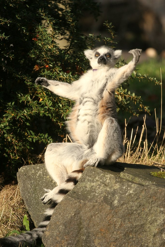 Ring-tailed lemur sunning in Edinburgh Zoo.